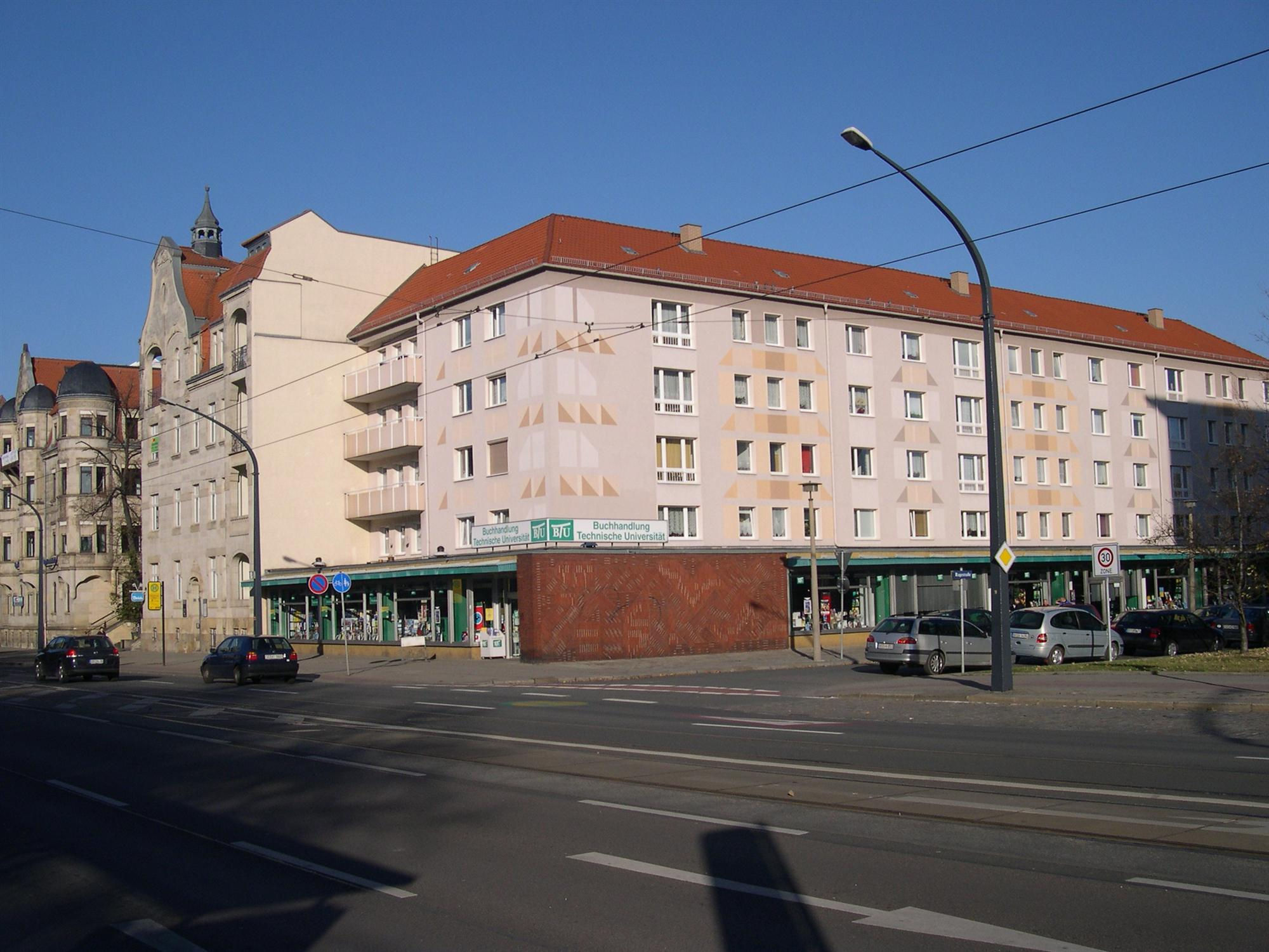 Book store of the university of Dresden